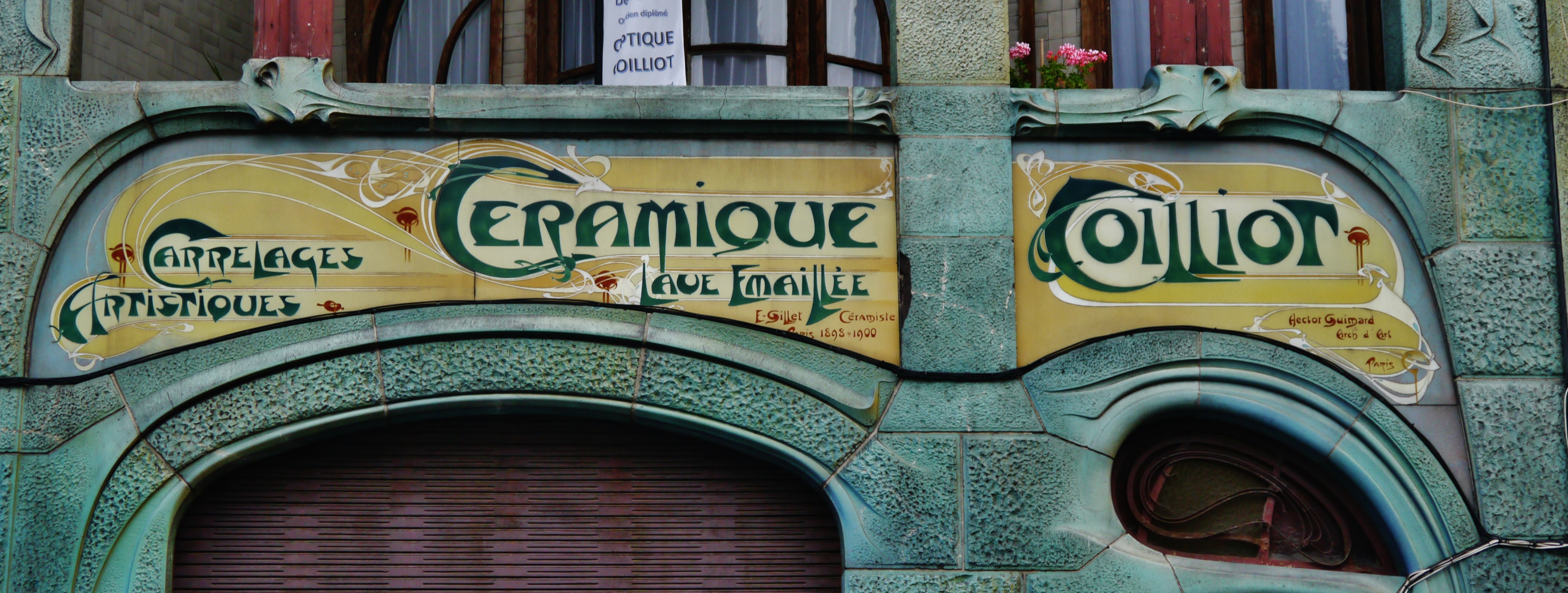 Coilliot House, Lille, Département of Nord, Region of Upper France, (former Nord-Pas-de-Calais), France